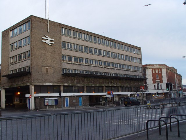 Paragon Station. Not the most attractive building. This photograph was taken shortly after the announcement of redevelopment of the Railway Station and Bus Station into the St Stephens Transport Interchange, see 558629. The building beyond the station was known as "The Electricity Showrooms" and at ground floor elevel was the entrance to "The Regal", a cinema.